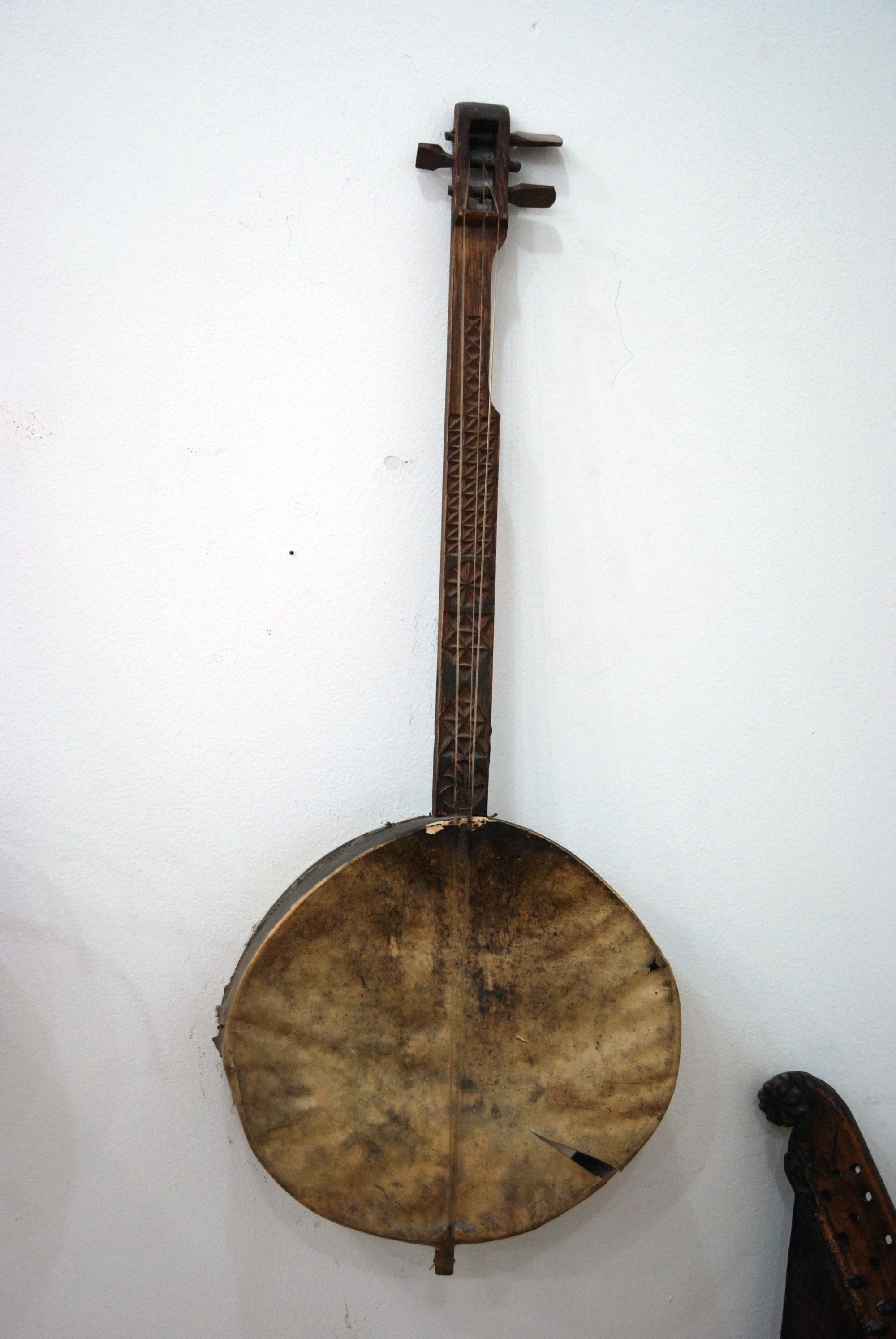 Chuniri, State Museum of Georgian Folk Songs and Musical Instruments, Tbilisi